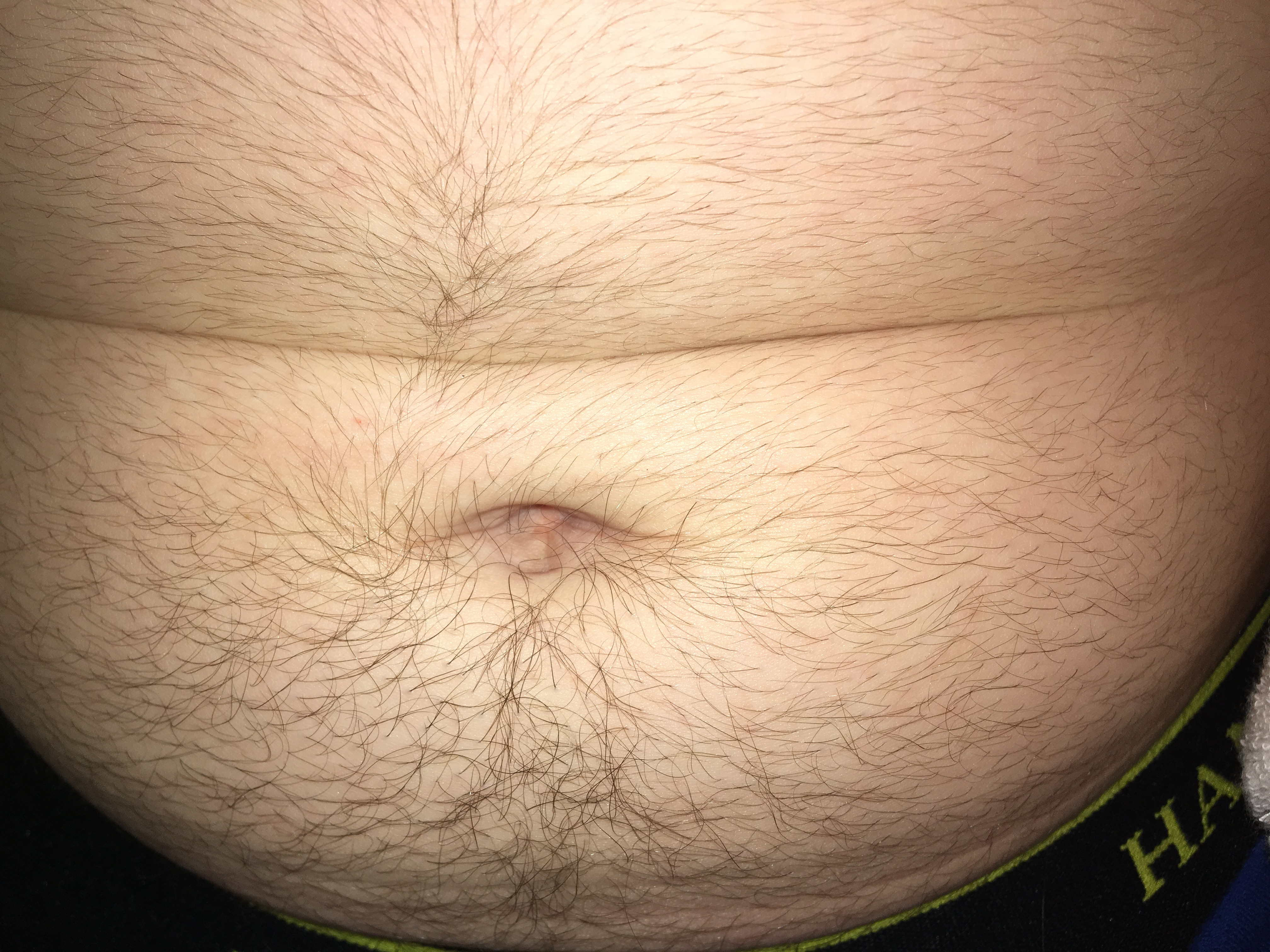 Abdominal hair of an adolescent.